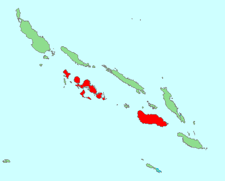 Distribution of Buff-headed Coucal, Centropus milo. Created DEMIS World Map Server using and PD source maps. Based on Doughty et al 1999